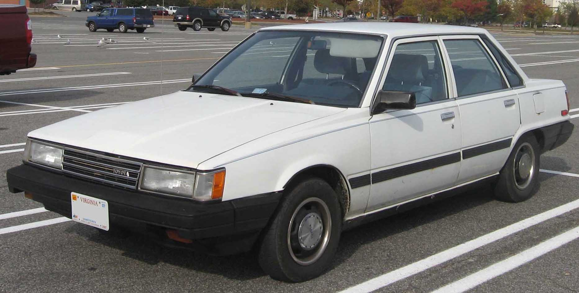 1985-1986 Toyota Camry photographed in Waldorf, Maryland, USA.